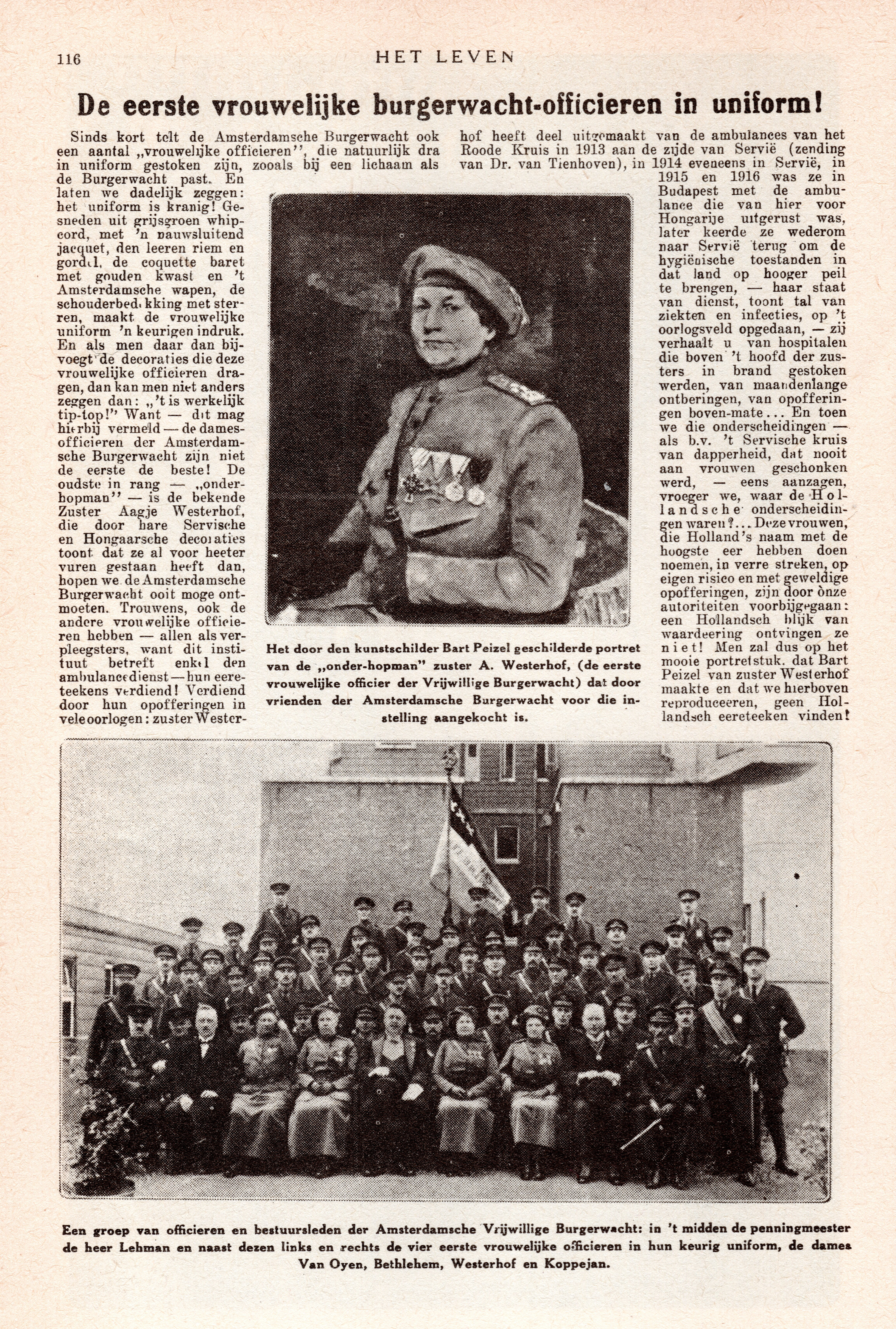 Eerste vrouwelijke officieren bij de vrijwillige burgerwacht; Van Oyen, Bethlehem, Westerhof